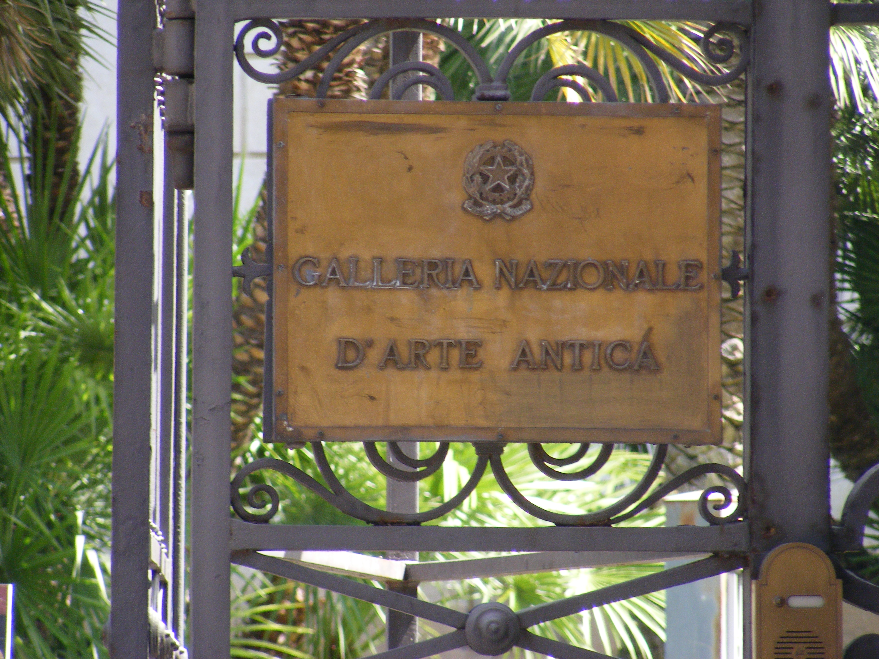 Entrance sign of Galleria Nazionale d'Arte Antica